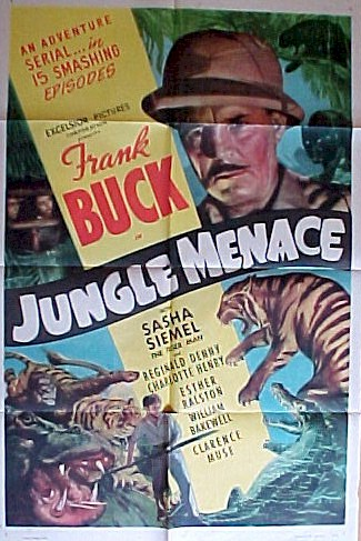 Poster for the American film serial Jungle Menace (1937).